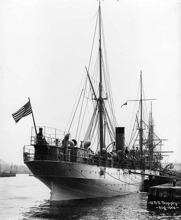 Stern view of the USS Supply (1873). Photo probably taken at the New York Navy Yard just after the ship's recommission